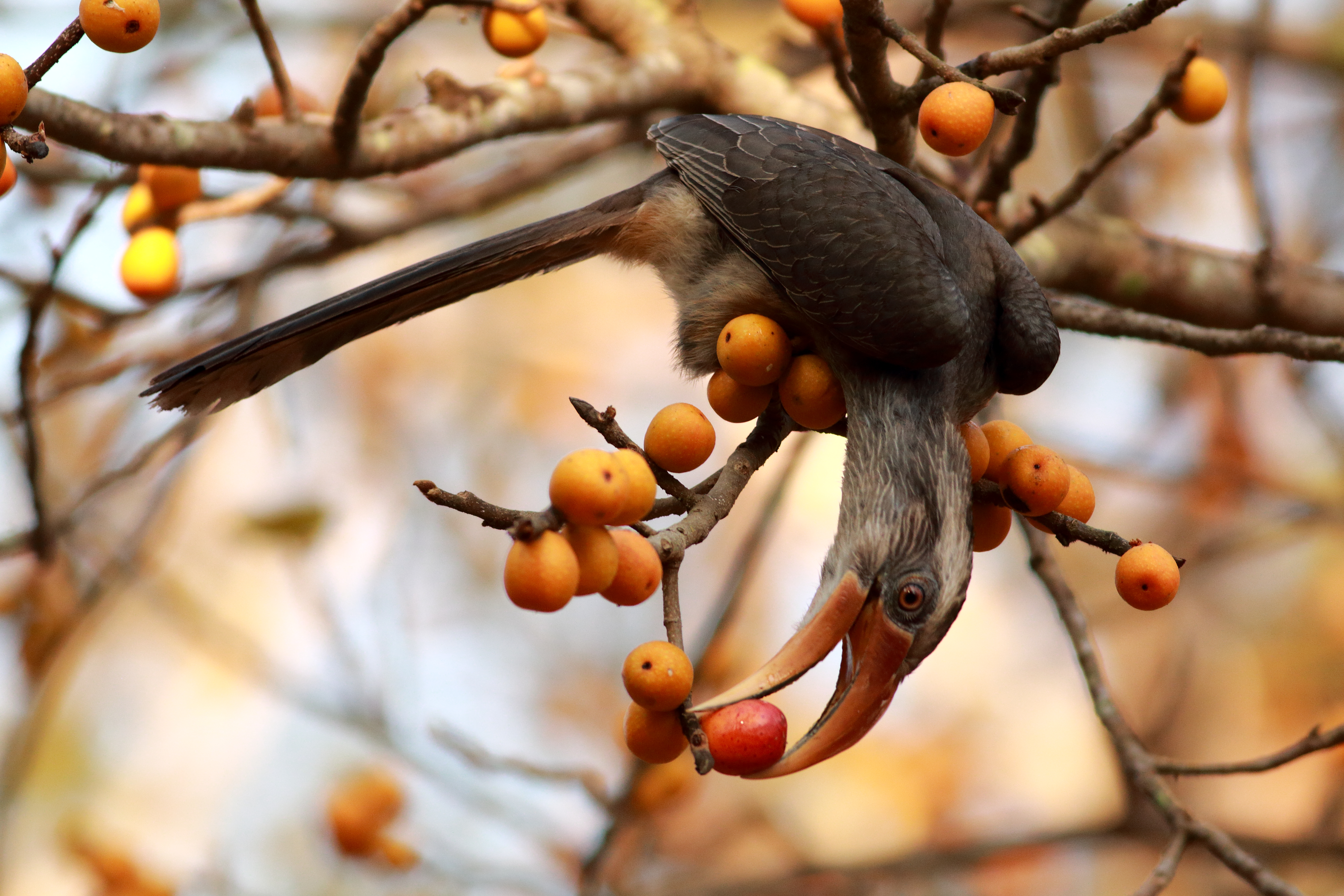 Malabar Grey hornbill with fruit, Gangeshgudi, Dandeli Wildlife Sanctuary